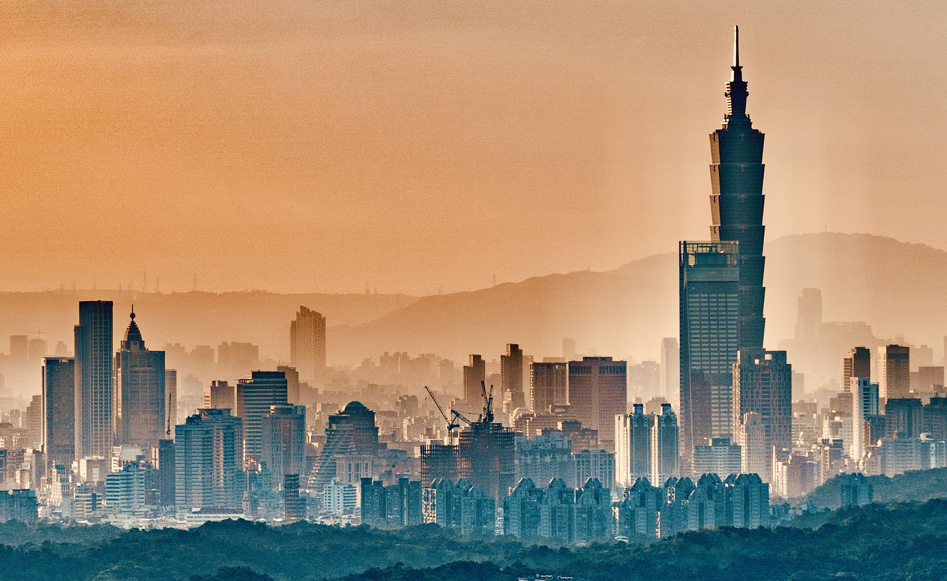 Metropolitan sunset skyline of Taipei City taken in 2020, showing an impressive silhouette of its skyscrapers